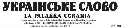 logo-banner of Ukrainian newspaper «Українське Слово», published in Argentina.